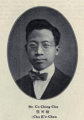 Zhu Kezhen (1890－1974)